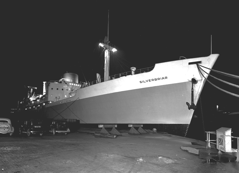 View of the cargo ship ‘Silverbriar’ at night, February 1948 (TWAM ref. DT.TUR/2/1232W). She was launched at the North Sands shipyard of J.L. Thompson & Sons, Sunderland, 21 May 1947. This set celebrates the achievements of the famous Sunderland shipbuilding firm Joseph L. Thompson & Sons. The company’s origins date back to 1846 when the firm was known as Robert Thompson & Sons. Robert Thompson senior died in 1860, leaving his second son Joseph Lowes Thompson in control. In 1870 the shipyard completed its last wooden vessel and was then adapted for iron shipbuilding. By 1880 the firm had expanded its operations over much of North Sands and in 1884 completed the construction of Manor Quay, which served as fitting out and repair facilities. For many years in the late nineteenth century the yard was the most productive in Sunderland and in 1894 had the fourth largest output of any shipyard in the world. The Depression affected the firm severely in the early 1930s and no vessels were launched from 1931 to 1934. However, during those years the company developed a hull design giving greater efficiency and economy in service. During the Second World War the prototype developed by Joseph L. Thompson & Sons proved so popular that it was used by the US Government as the basis of over 2,700 Liberty ships built at American shipyards between 1942 and 1945. After the War the North Sands shipyard went on to build many fine cargo ships, oil tankers and bulk carriers. Sadly the shipyard closed in 1979, although it briefly reopened in 1986 to construct the crane barge ITM Challenger. (Copyright) We're happy for you to share these digital images within the spirit of The Commons. Please cite 'Tyne & Wear Archives & Museums' when reusing. Certain restrictions on high quality reproductions and commercial use of the original physical version apply though; if you're unsure please